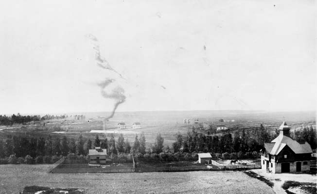 Inglewood, Southern California, circa 1894.